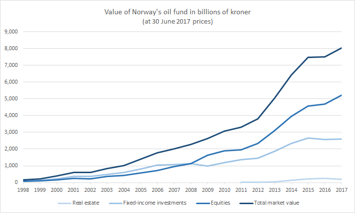 Data from